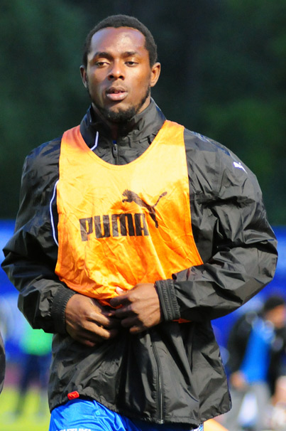 Photo of soccer player, Peter Byers.